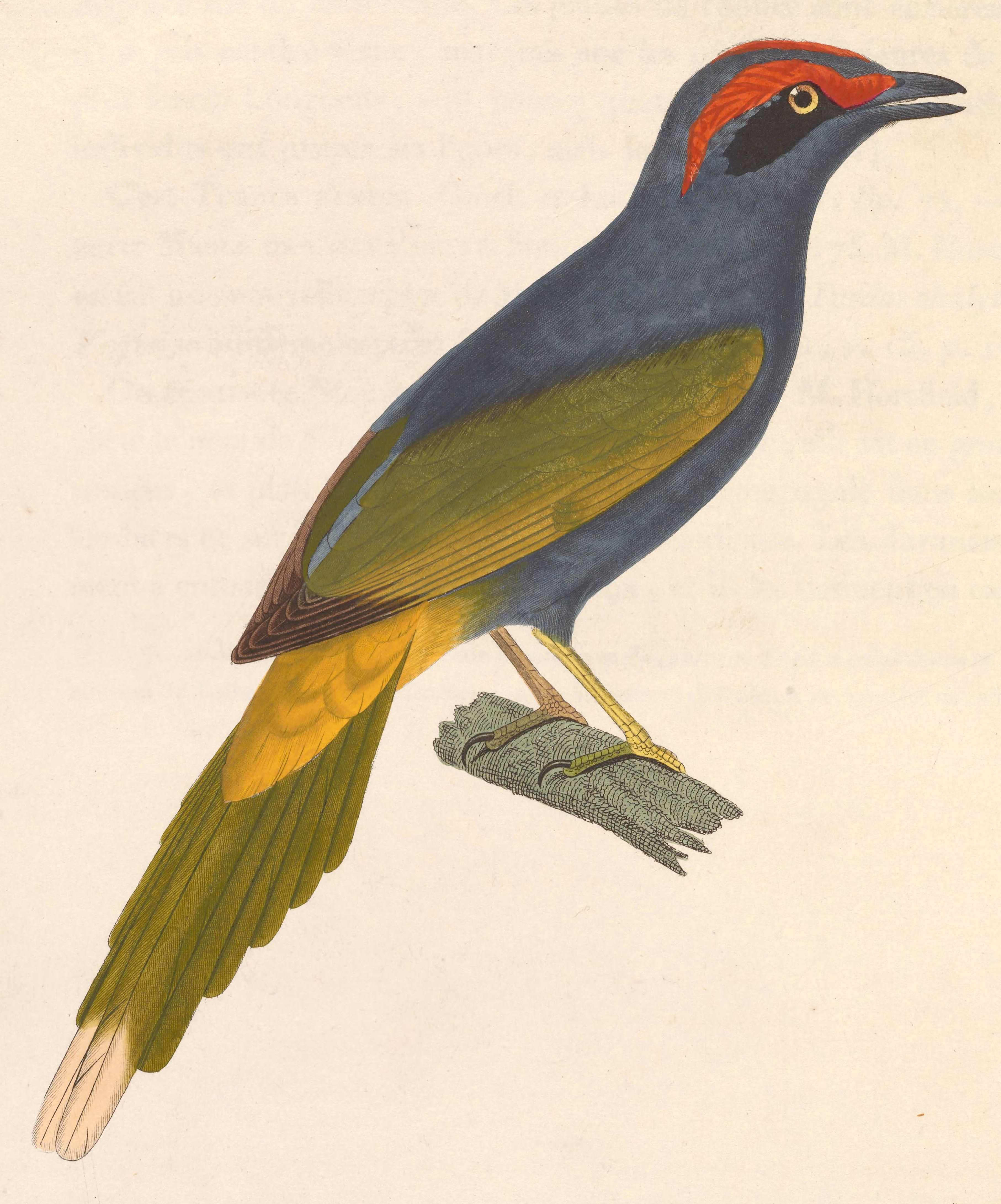 « Lamprotornis erythrophrys » = Enodes erythrophris (Fiery-browed Myna) - adult